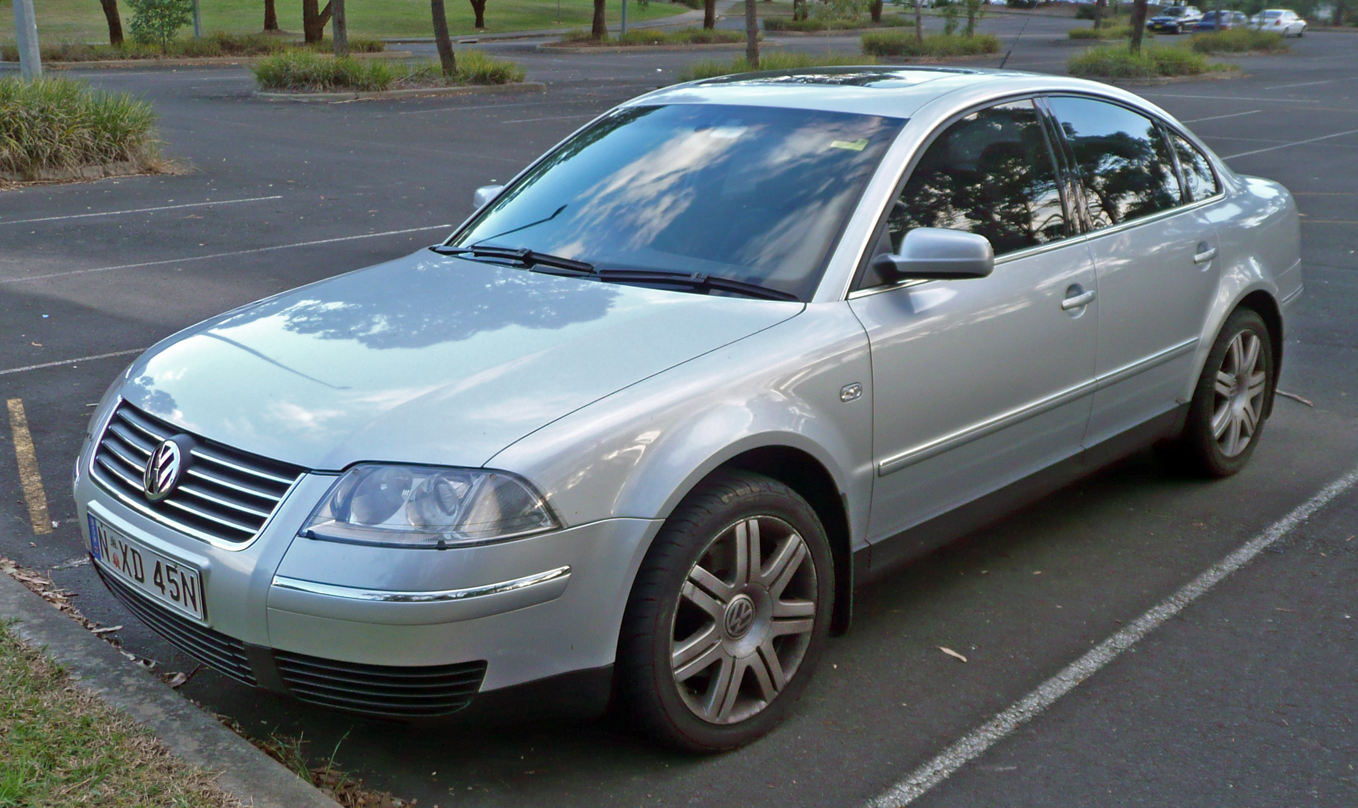 2003 Volkswagen Passat (3BG MY03) SE V6 sedan. Photographed in Loftus, New South Wales, Australia.